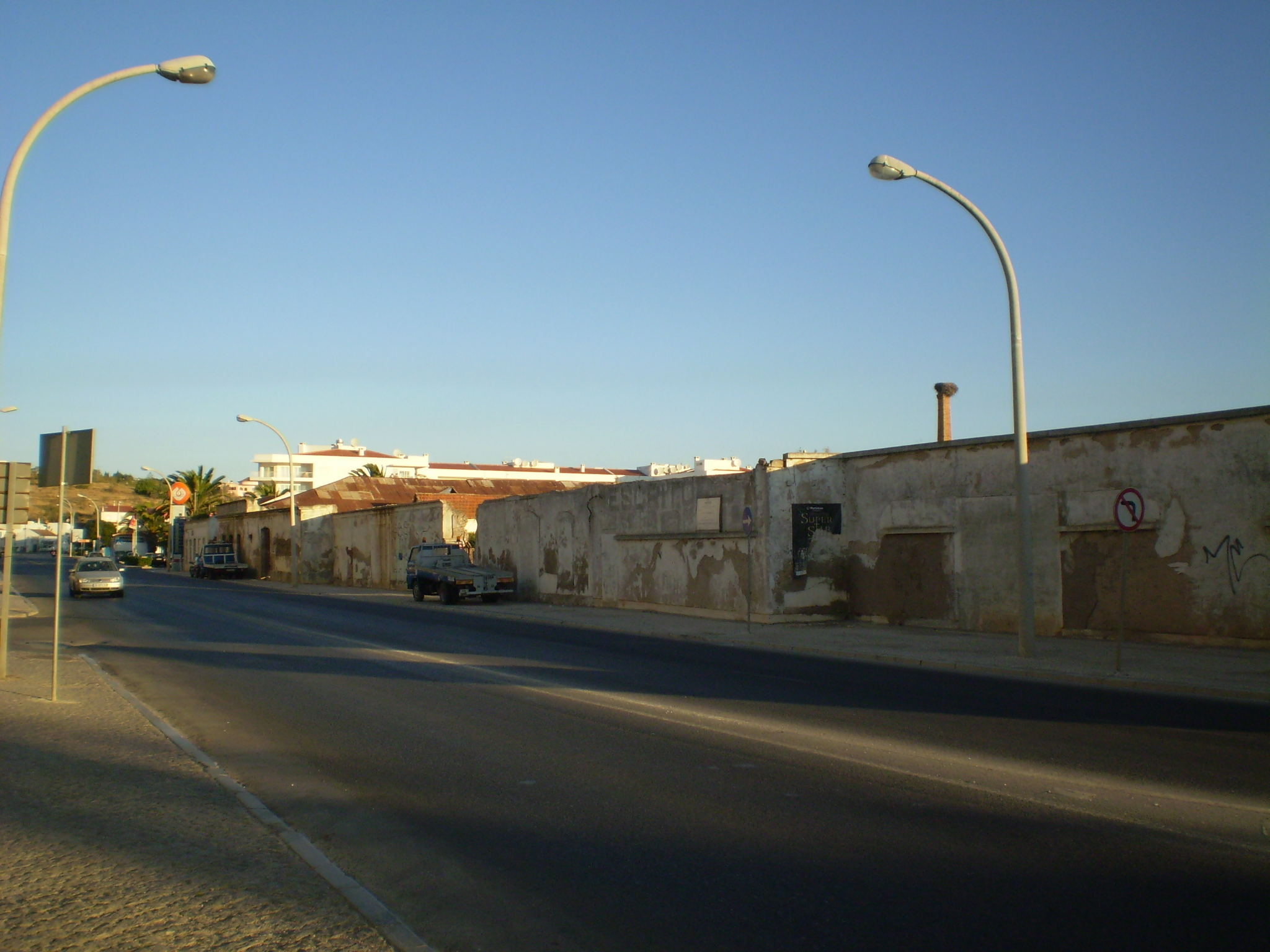 Ruins of the Algarve Exportador fish packing factory in Rossio de S. João, Lagos, Portugal.